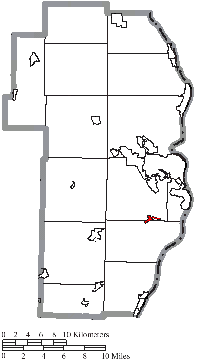 Map of the municipal and township boundaries of Jefferson County, Ohio, United States, as of the 2000 census, with the location of the village of New Alexandria highlighted. Township borders are shown only in unincorporated areas in order to differentiate incorporated and unincorporated areas more clearly.